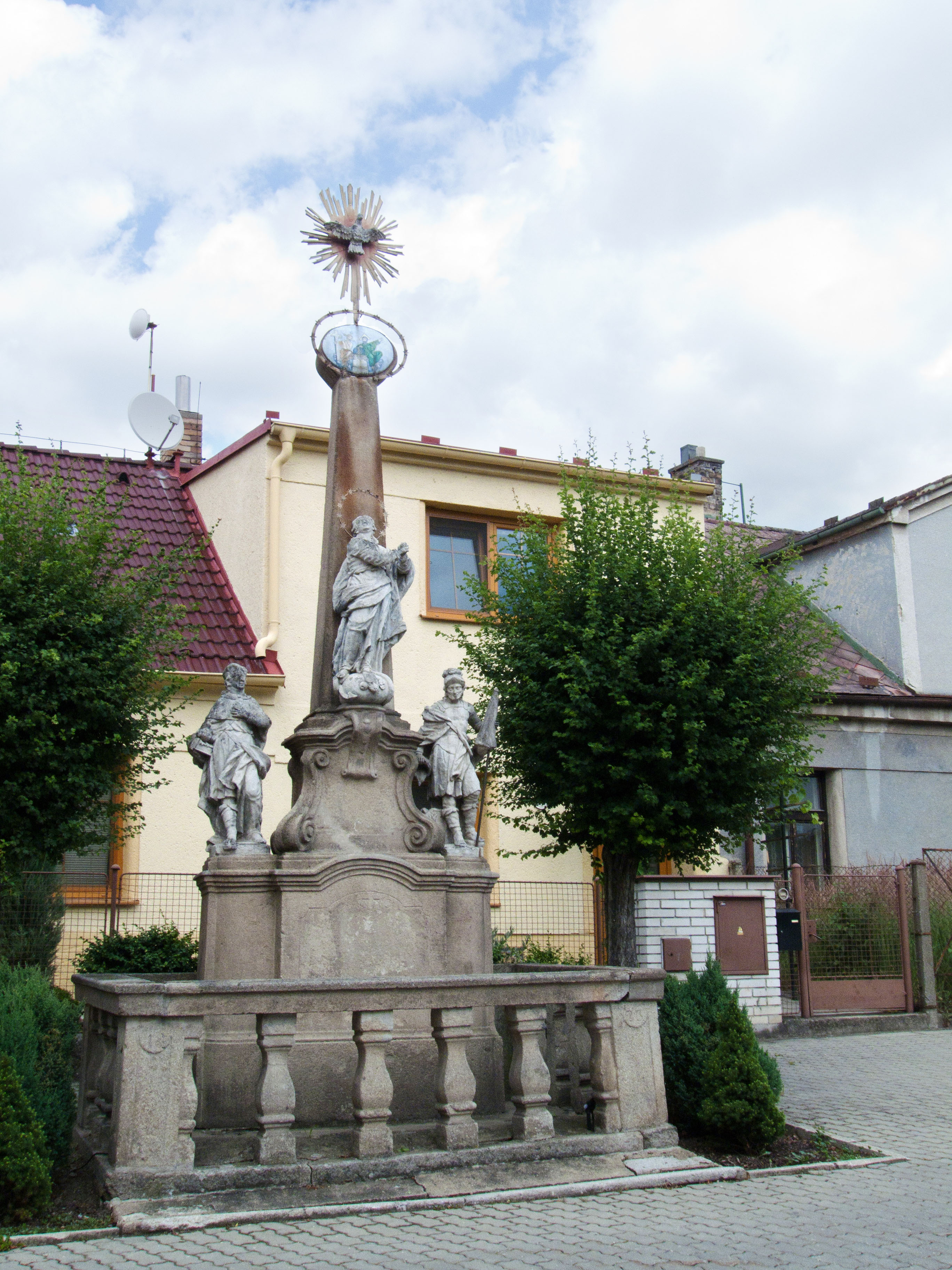 Holy Trinity column in the village of Adamov, České Budějovice District, Czech Republic (1770).